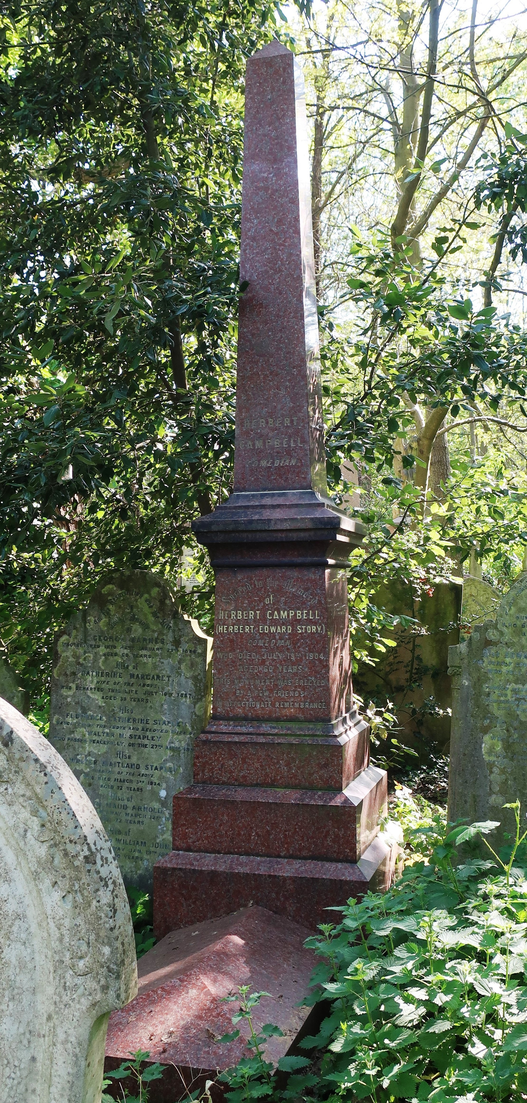 Grave of Herbert Campbell (1844–1904), comedian and actor, in Abney Park Cemetery, London.